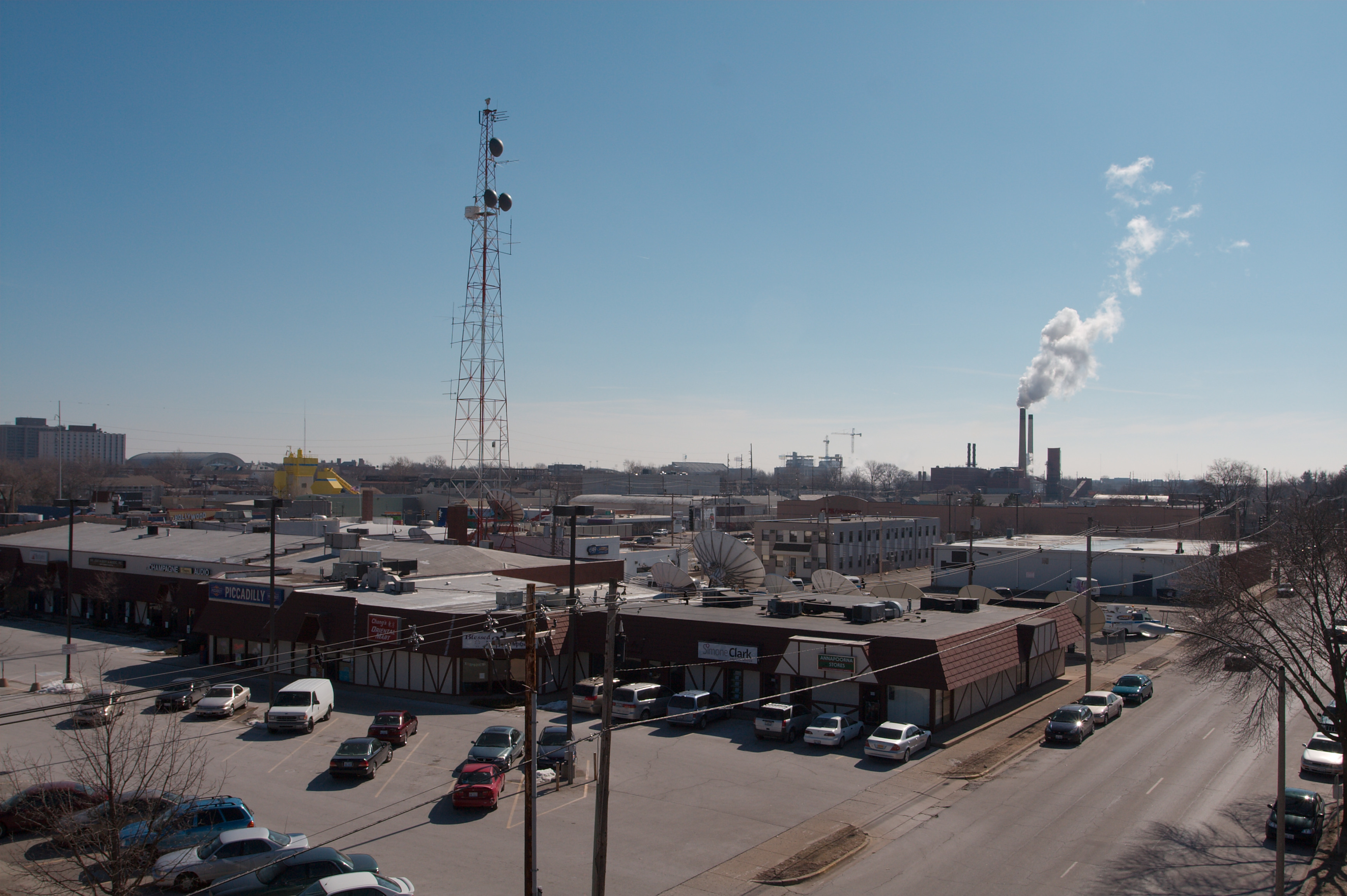 A view of Champaign, IL, looking towards southeast